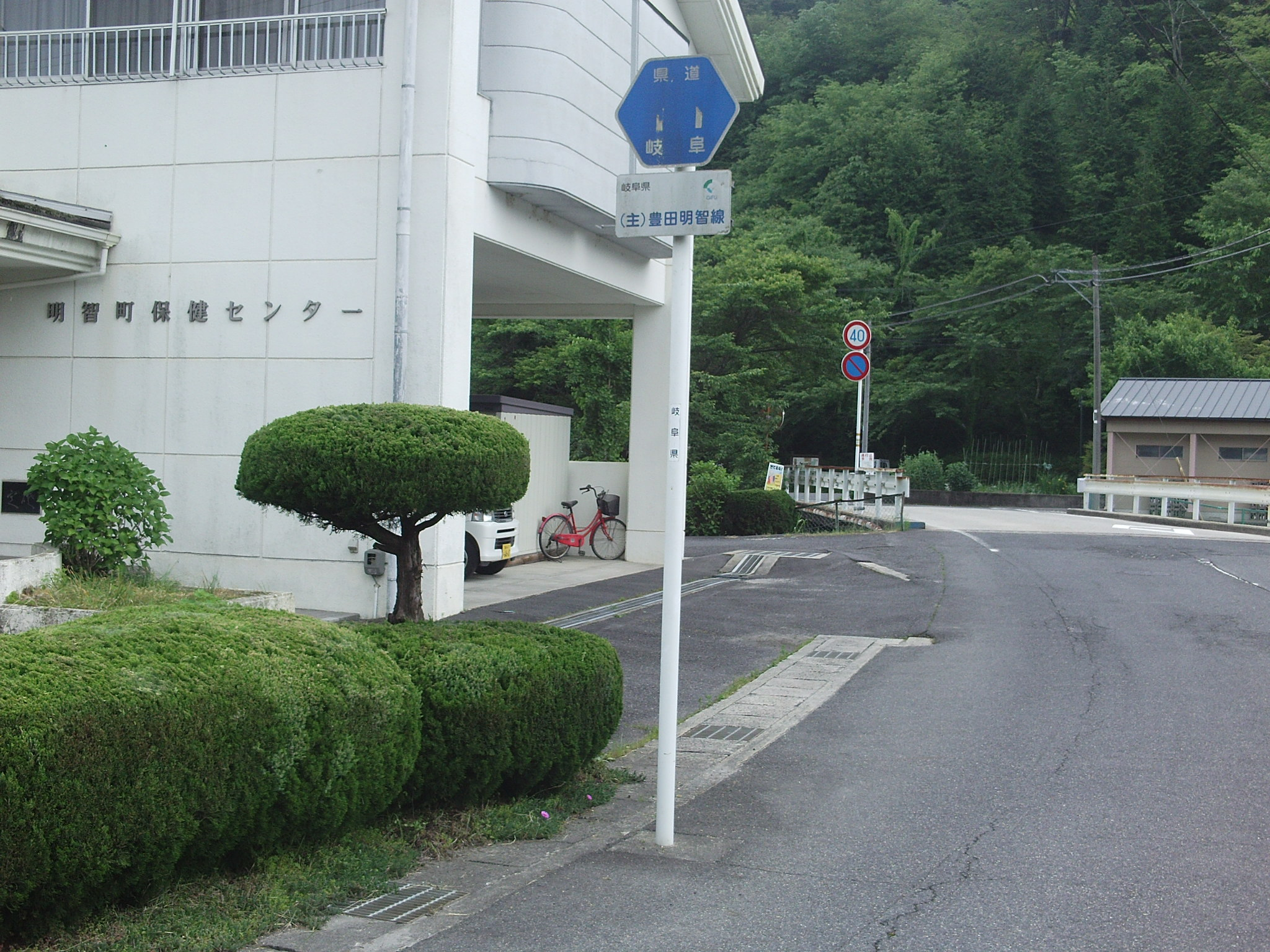 Gifu prefectural road No.11 in Akechicho, Ena, Gifu.